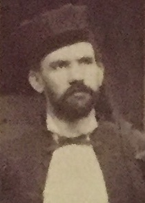 Émile Reinaud (1854-1924), French lawyer and writer, mayor of Nîmes (France) between 1892 and 1900